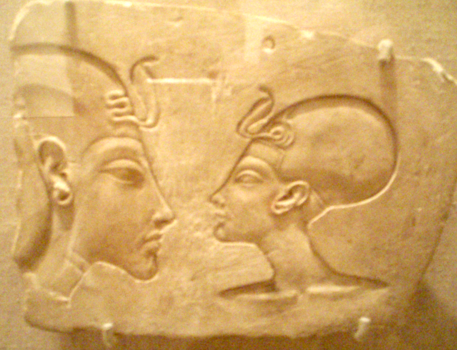 The "Wilbour Plaque", an artist's model depicting an Amarna-era King and Queen. The Queen is likely Nefertiti, and the King either Akhenaten, Smenkhkare, or a young Tutankhaten.